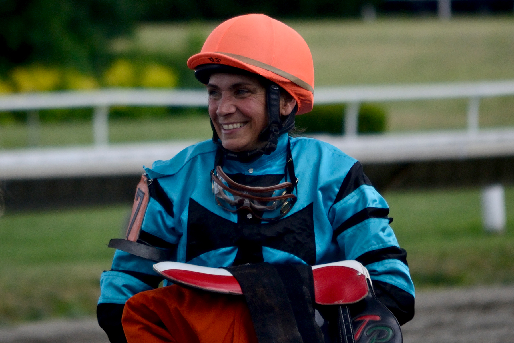 This is a photo of jockey Tammi Piermarini at Suffolk Downs race track in East Boston, Massachusetts on July 8, 2017. She holds a saddle and other riding gear after unsaddling a horse following a race.